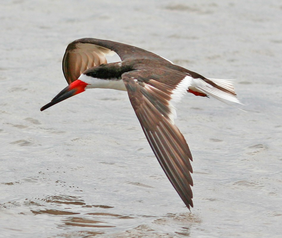 My favorite bird, the Black Skimmer (Rynchops niger ). Taken in Howard Park, Tarpon Springs, Florida.